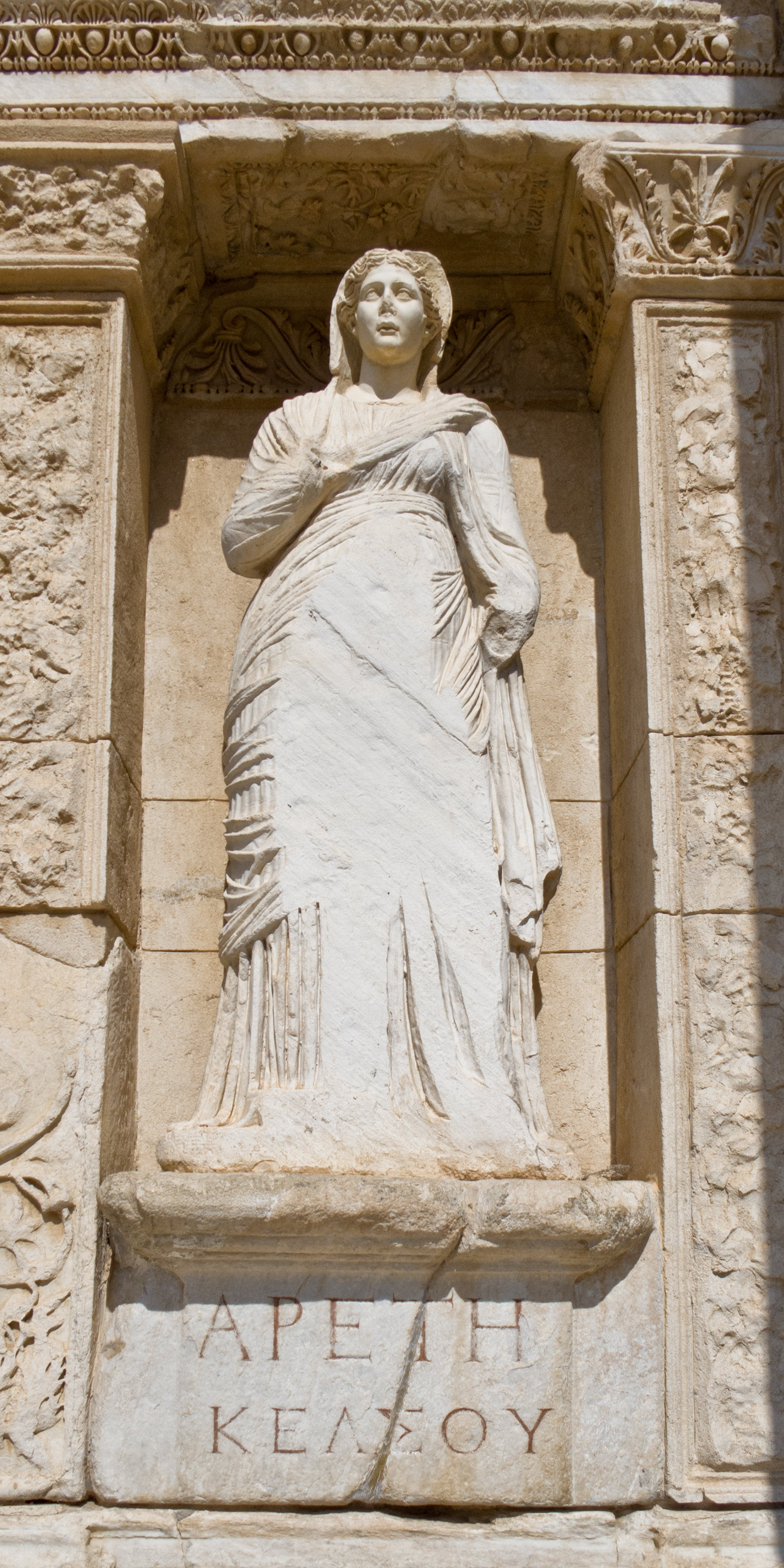 Arete sculpture in Ephesus, in modern-day Turkey.